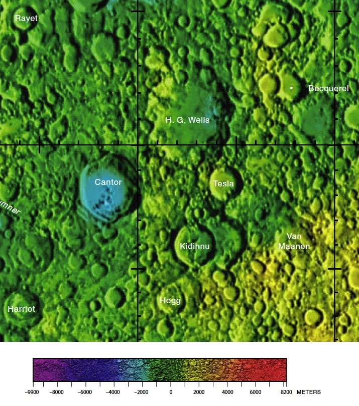 Part of the USGS far side lunar chart